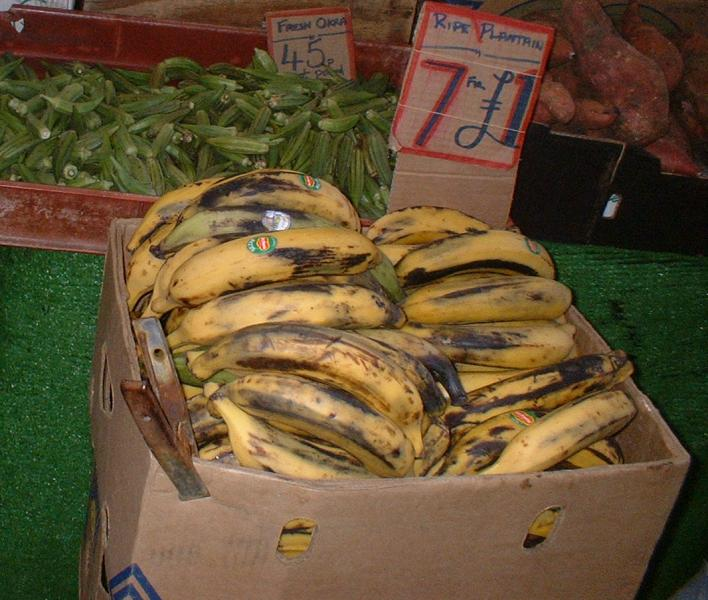 Plantain, taken at Brixton market by C Ford, March 04